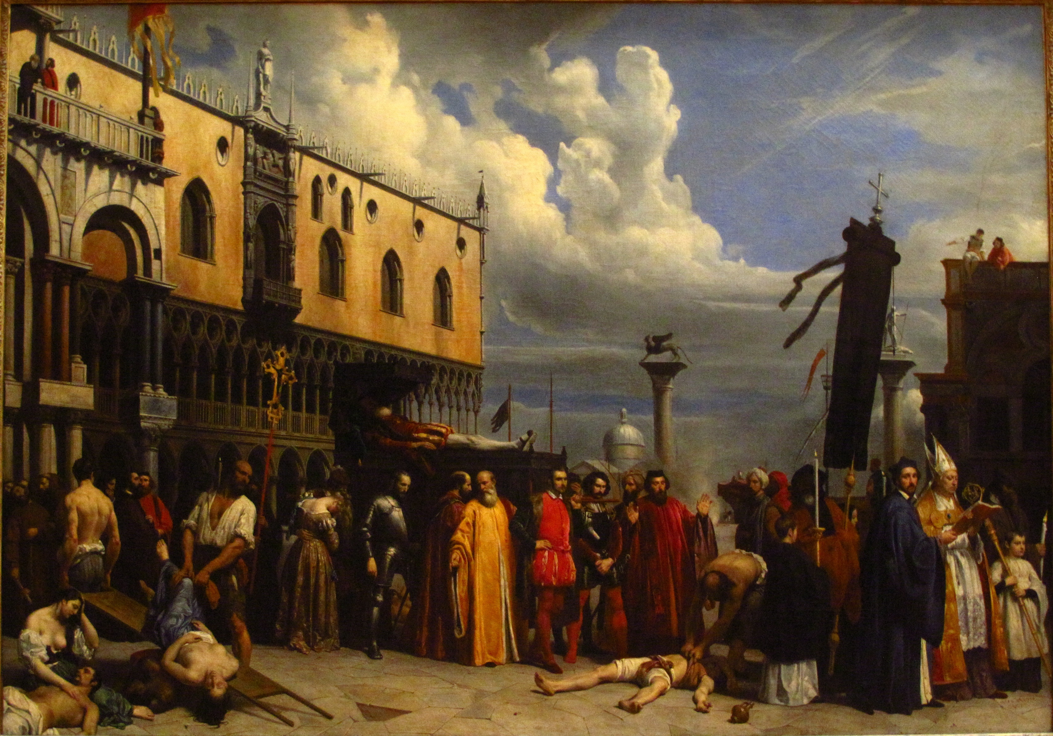 Titian's dead corpse, in Venice during the plague's epidemy in 1576.